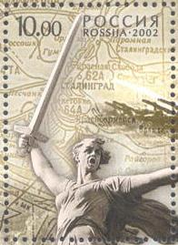 Russian stamp no. 791, commemorating the 60th anniversary of the Battle of Stalingrad.